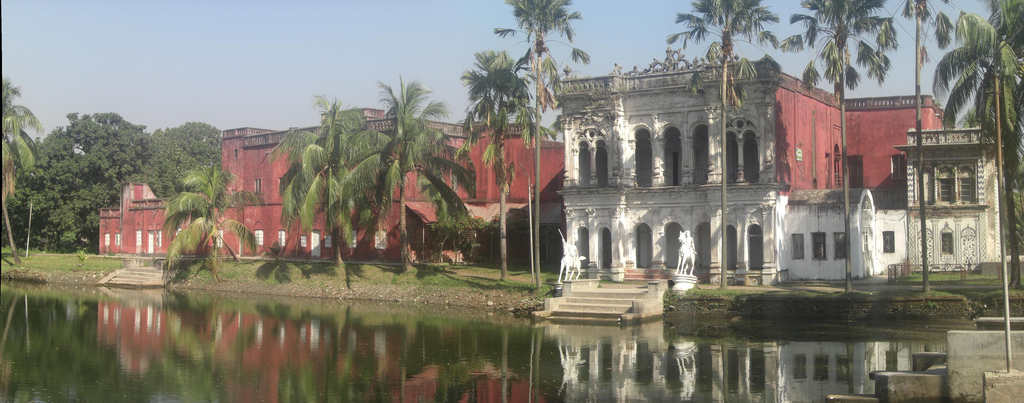 The Lok Shilpa Jadughar (Folk Arts Museum) in Sonargaon, Bangladesh. It was closed till Eid so I couldn't go inside. Best viewed large.